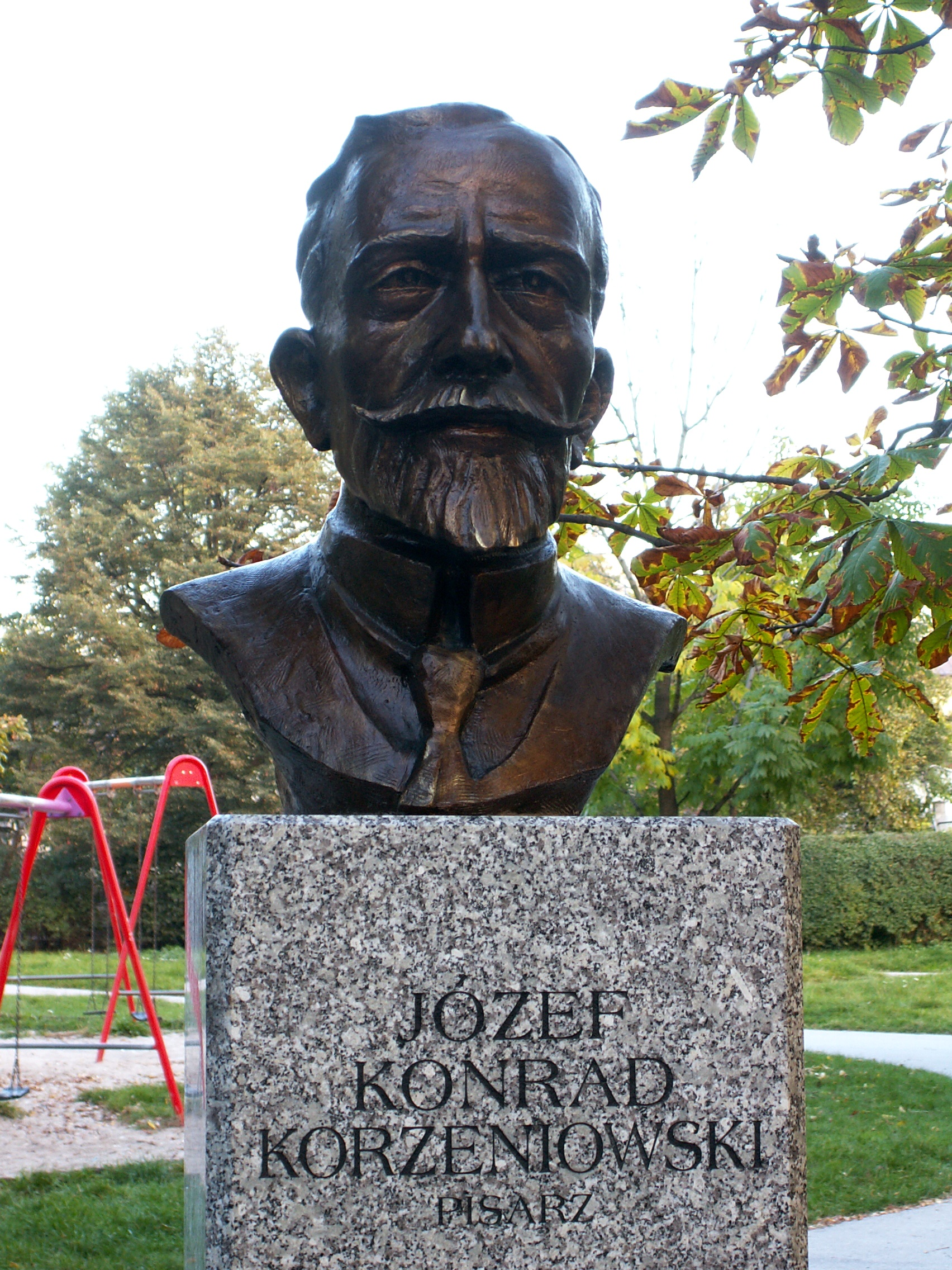 Bust of Joseph Conrad in Celebrity Alley in Kielce (Poland)